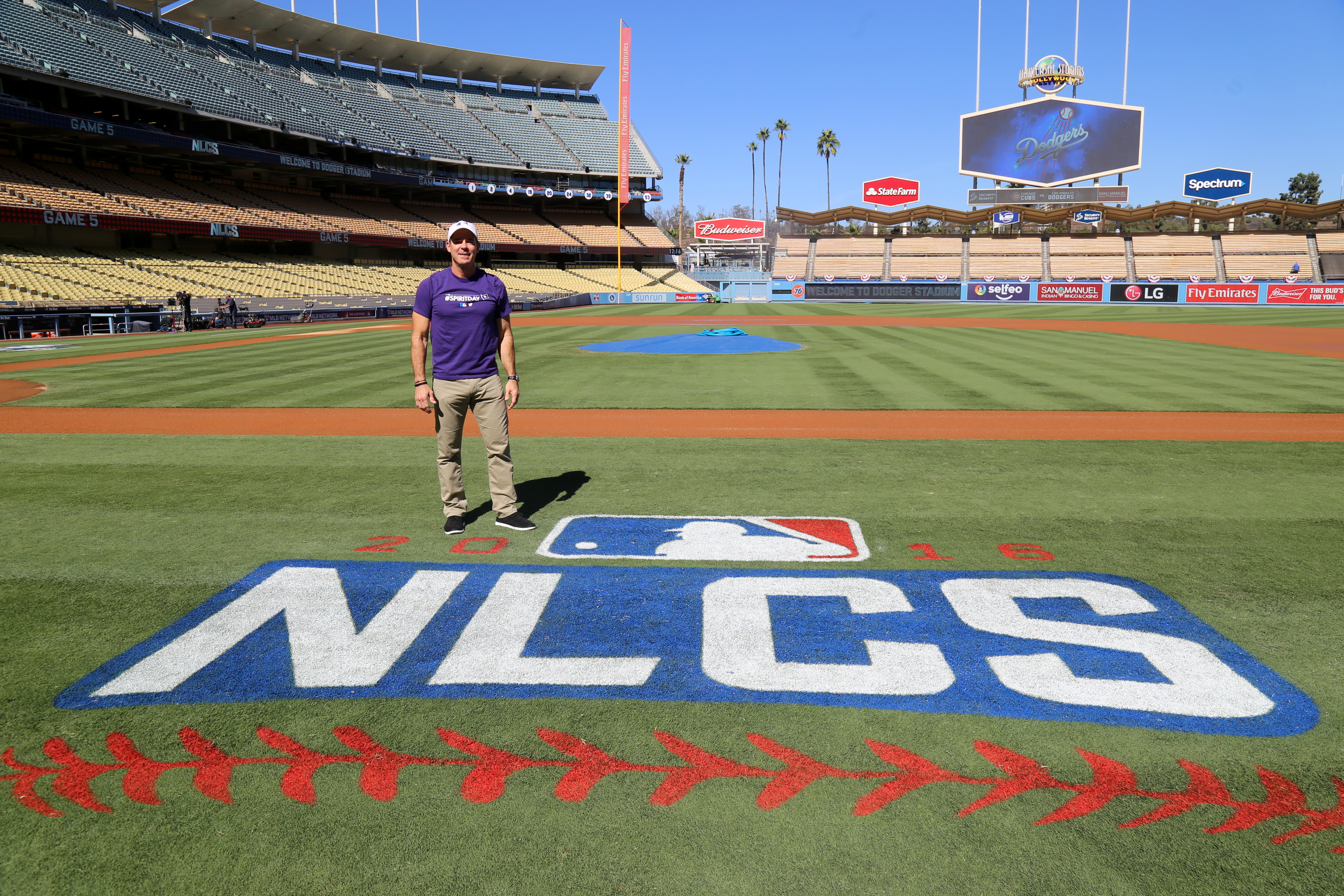 Rocking purple, Billy Bean supports #SpiritDay at Dodger Stadium.